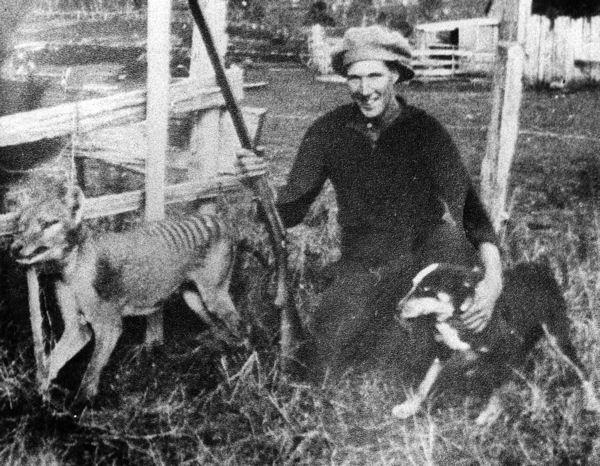 Wilfred Batty of Mawbanna, Tasmania, with the last Tasmanian tiger known to have been shot in the wild. He shot the tiger in May, 1930 after it was discovered in his hen house.